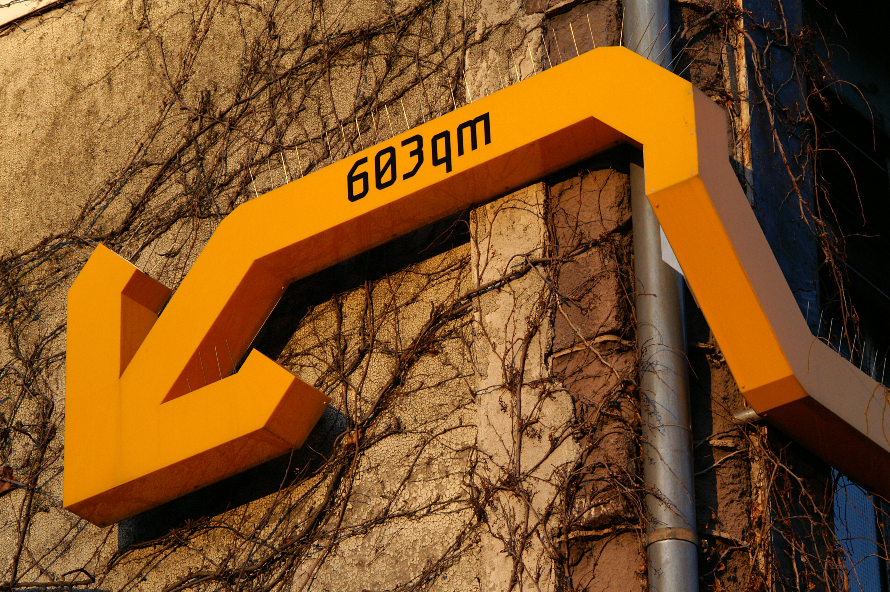 A sign showing the way to the entry of 603qm, Darmstadt, Germany